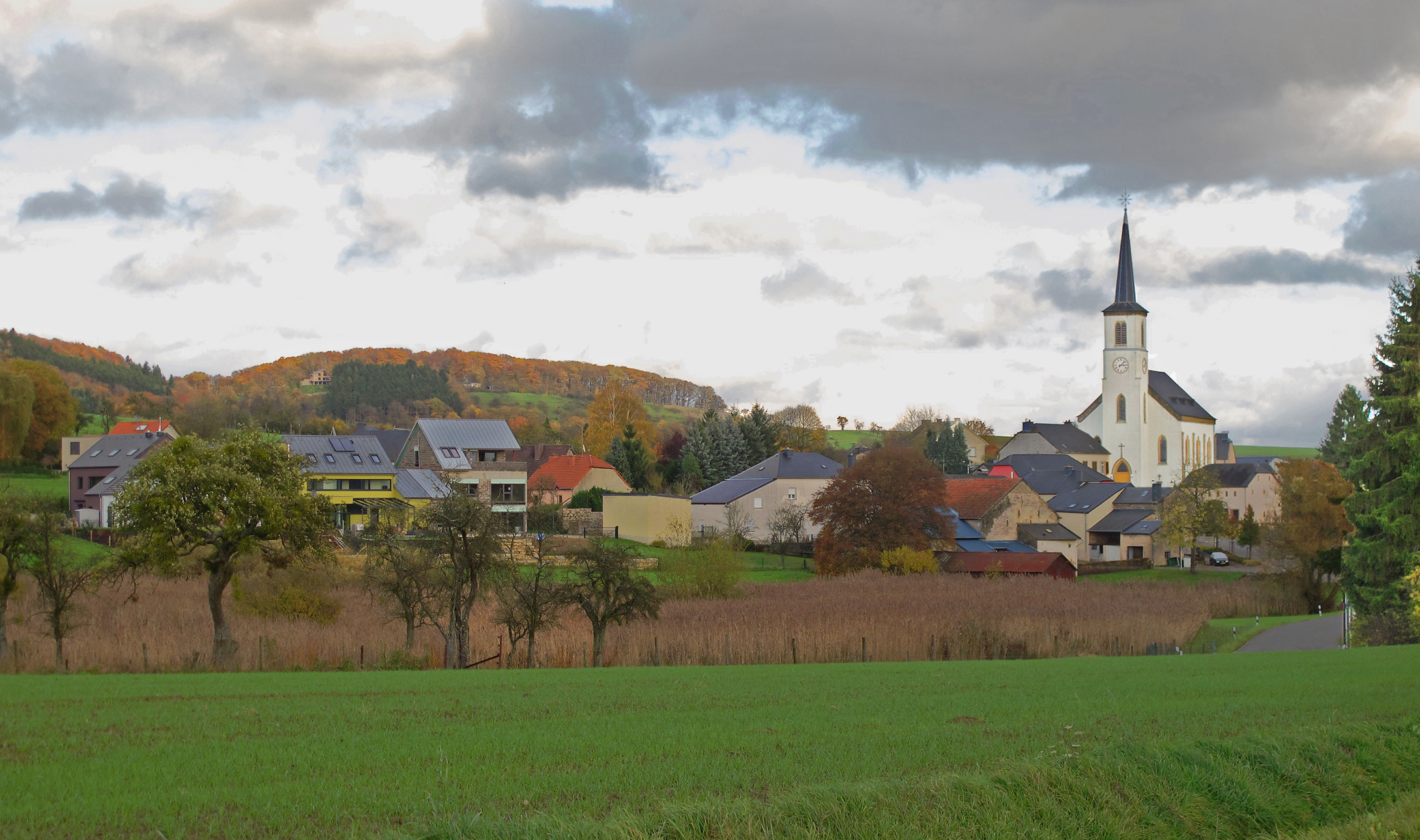 The village of Hemstal in Luxembourg